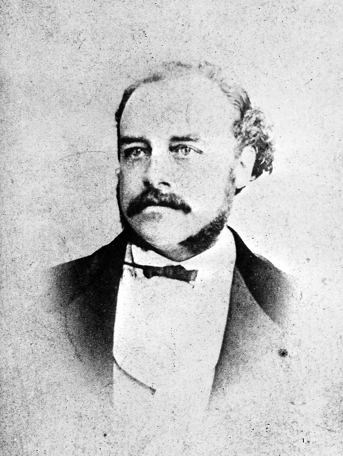 Portrait of F. Crace Calvert. (compare portrait here: [1]) Iconographic Collections Keywords: F. Craee Calvert